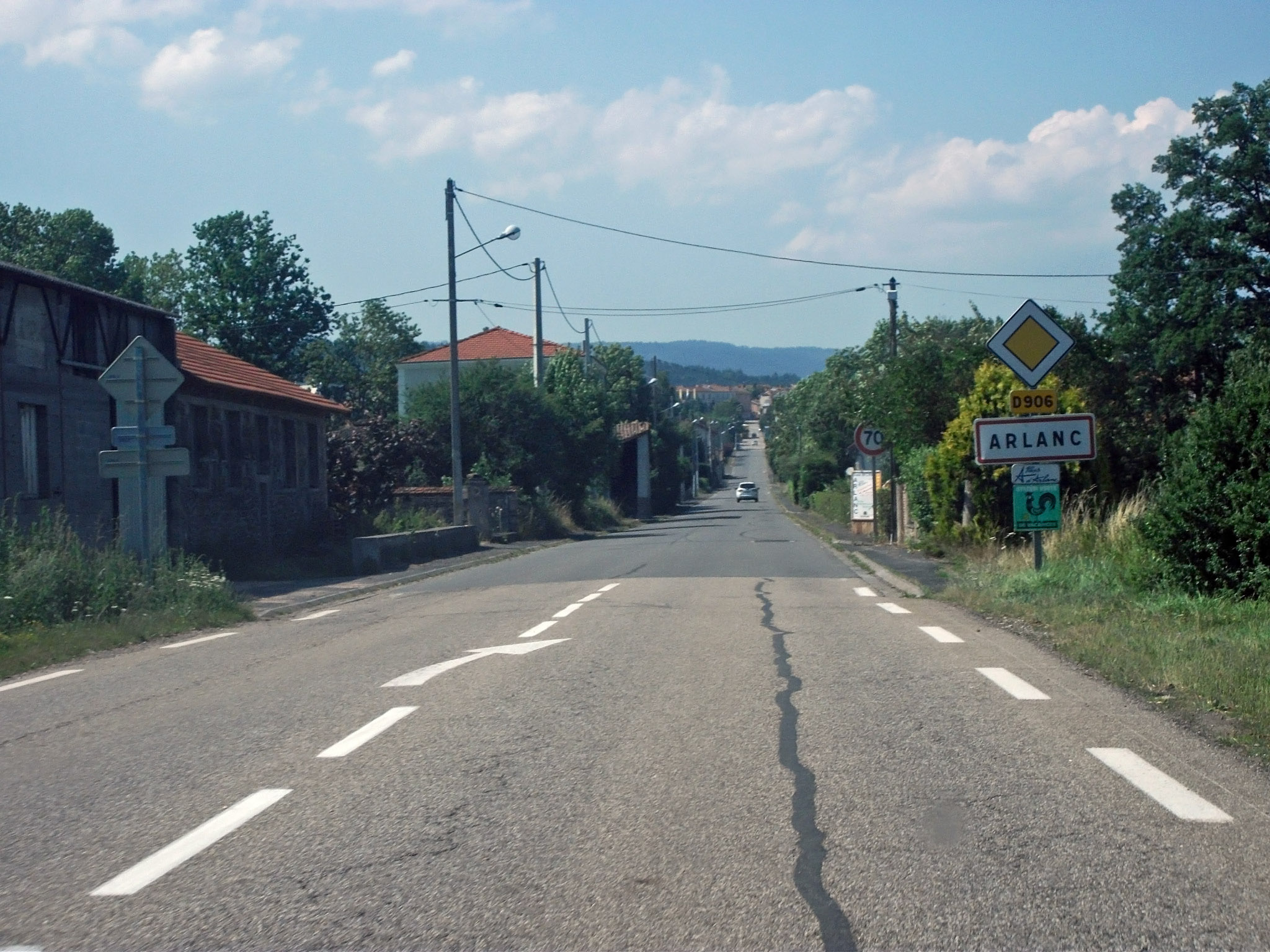 Entrance of Arlanc by departmental road 906, from Le Puy-en-Velay, to Ambert, Thiers and Vichy. Elevation: 588m/1,929ft